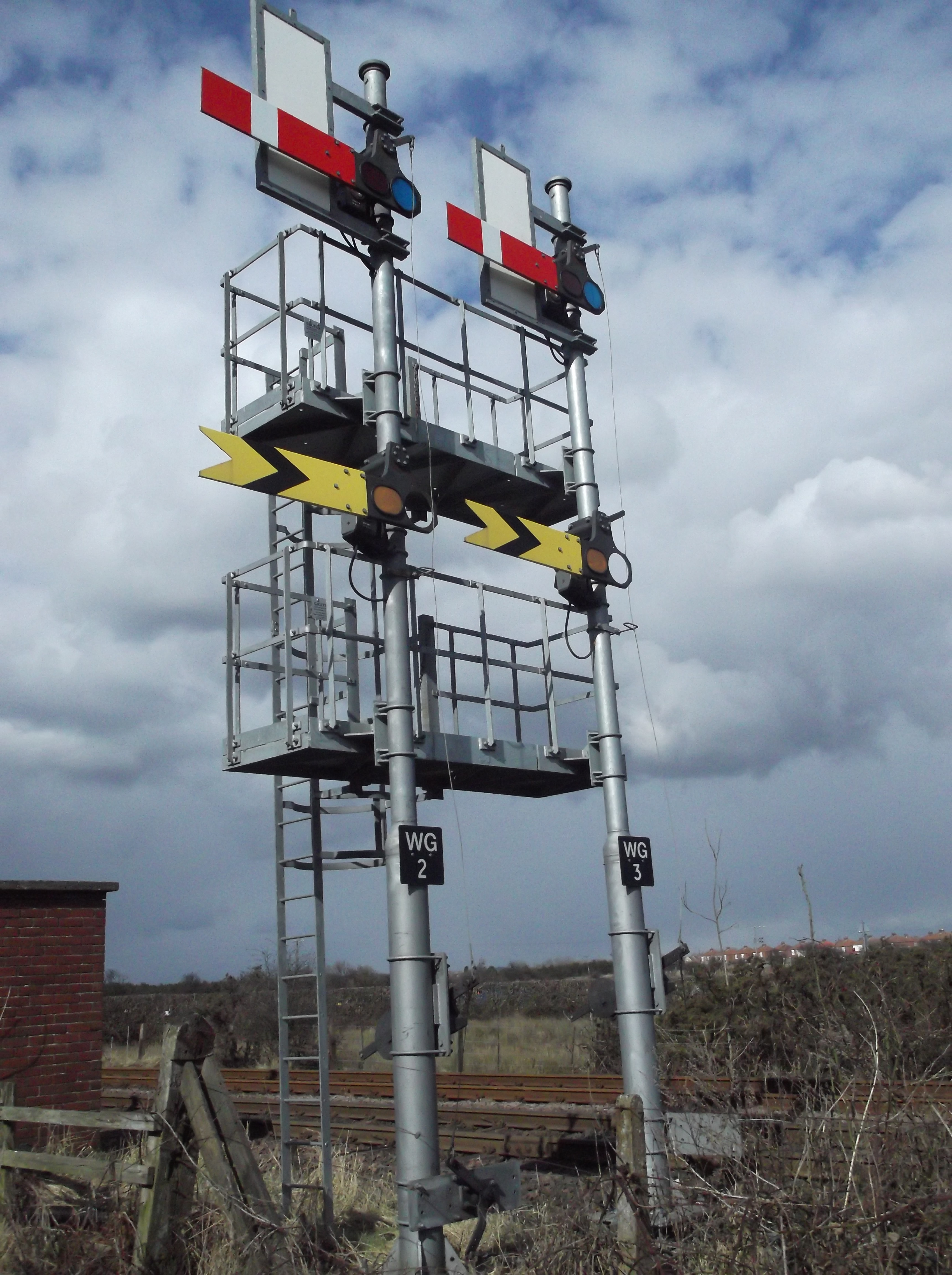 New semaphore signals installed since 2010 on the Blyth and Tyne network at Winning Signalbox. Forming a "splitting distant" controlling access to a tri-angle.